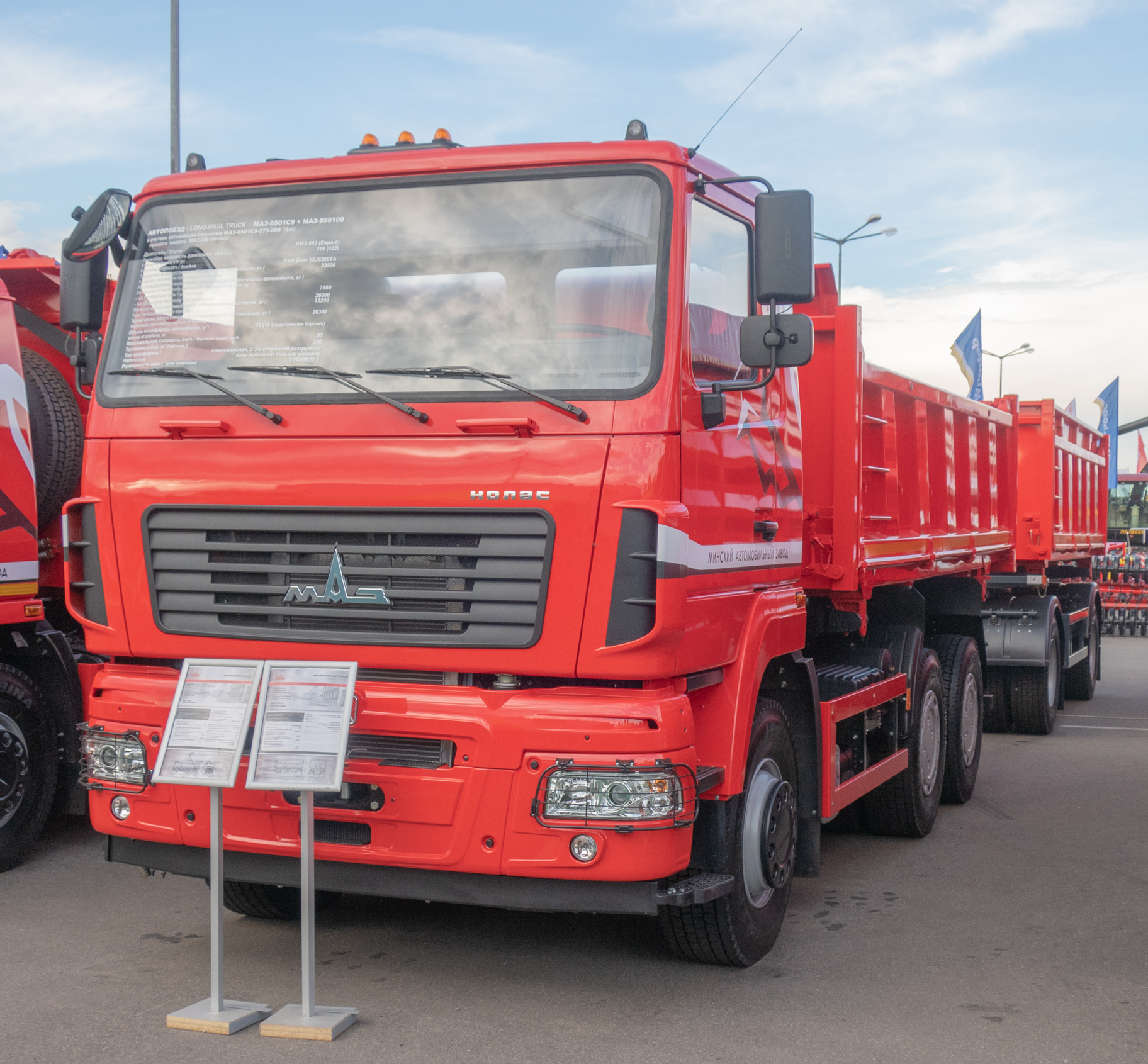 MAZ-6501C9 long-haul truck with MAZ-856100 trailer. Photo taken at Belagro-2019 exhibition (Minsk district, Belarus)